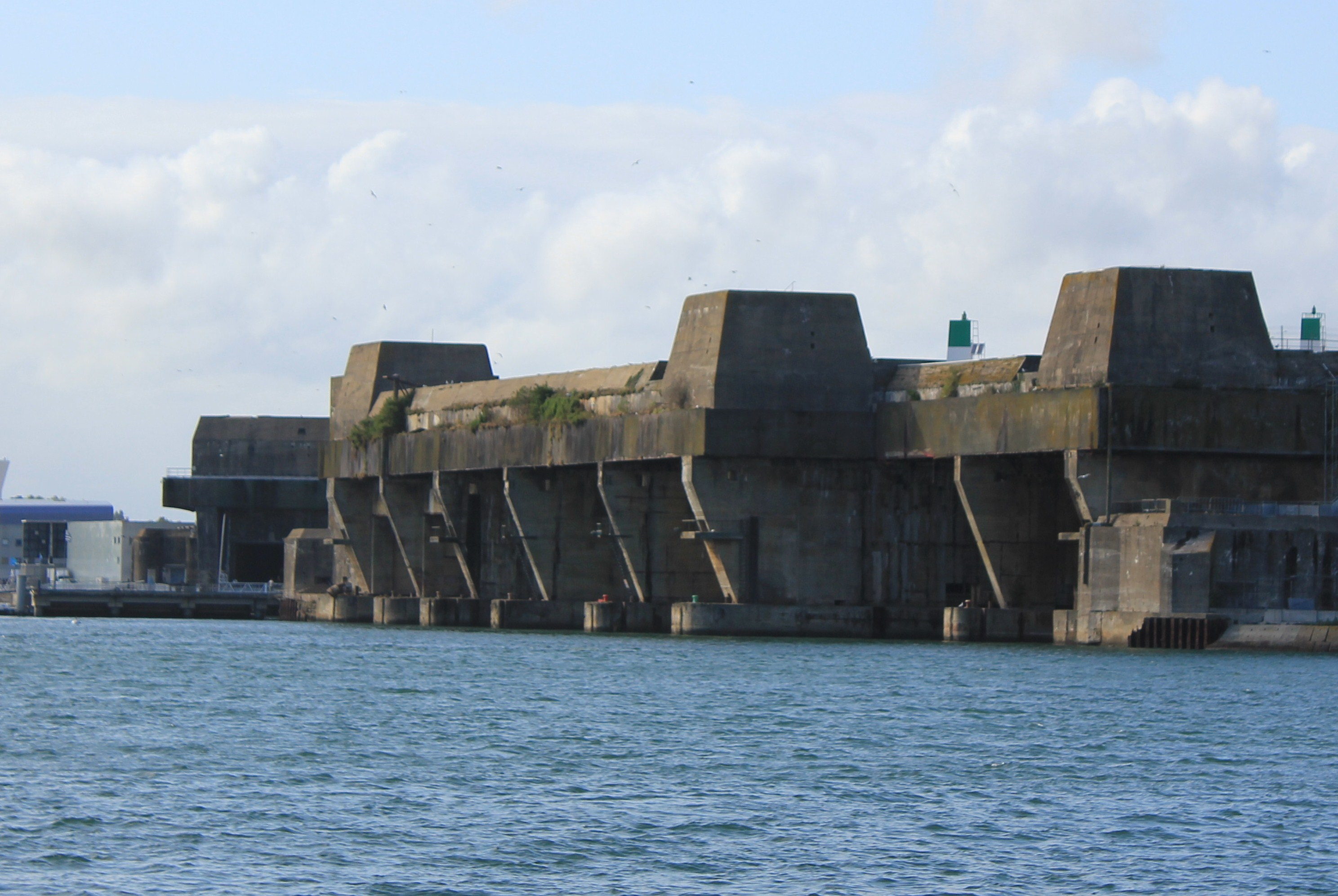 Entries of the submarines pens of Keroman III, viewed from the harbor, and at the bottom left Keroman I.